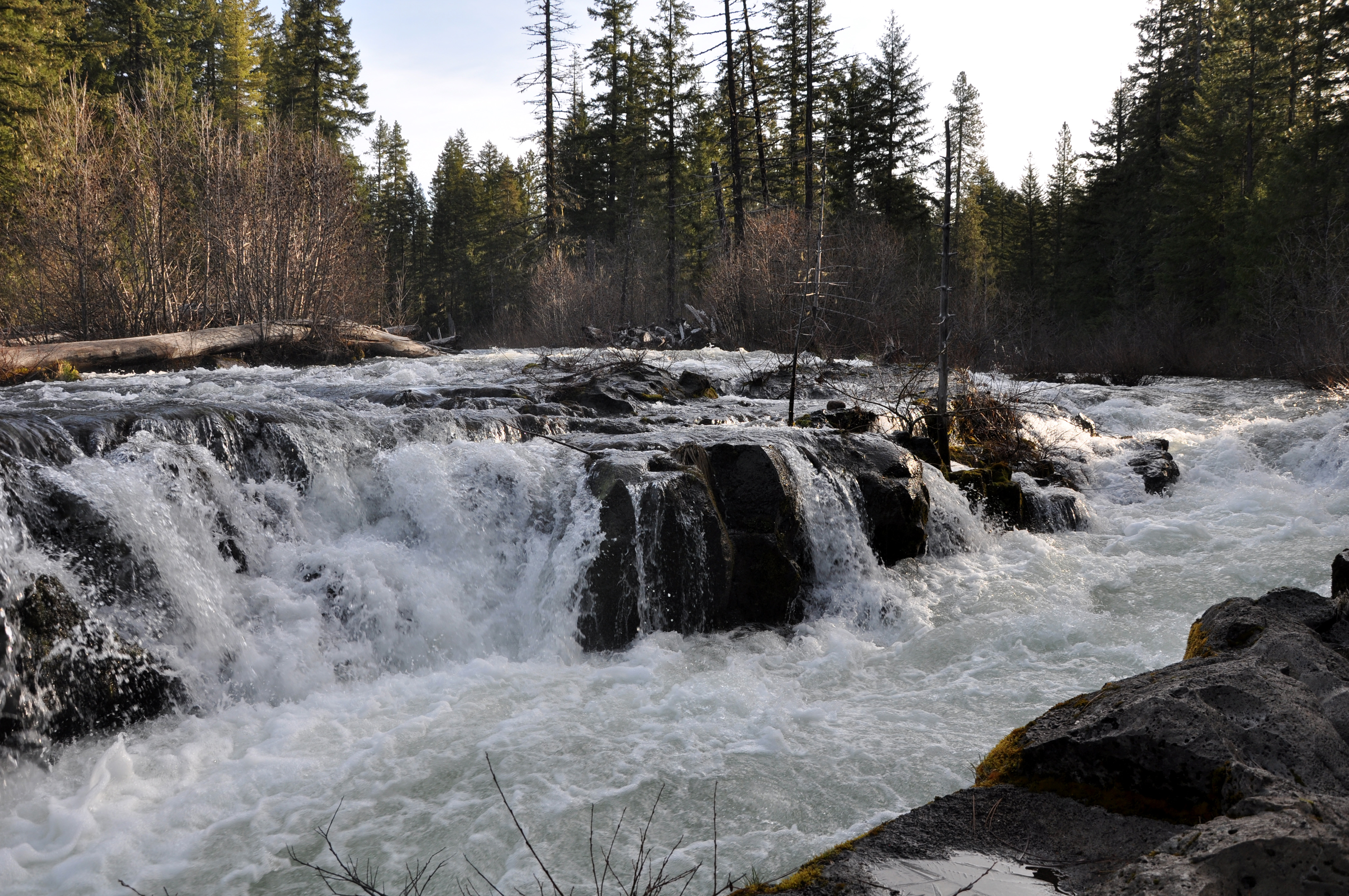 Slightly upstream of Rogue River Gorge near Union Creek in the U.S. state of Oregon.